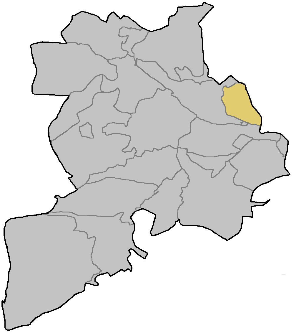 Locator map of Birkigt in Freital